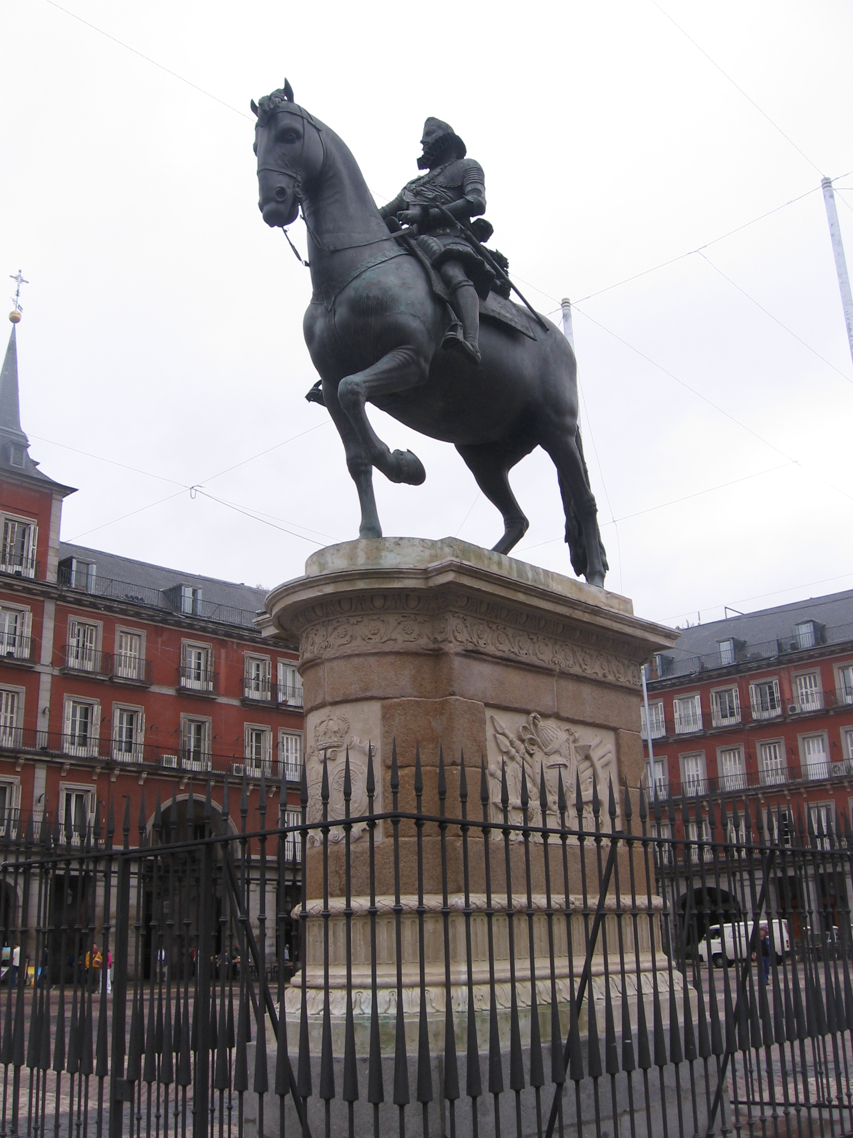 Plaza Mayor, Madrid: Statue of Phillip II.